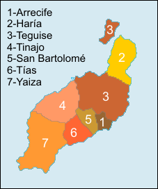 Lanzarote-Communities, adapted from Image:Lanzarote.png